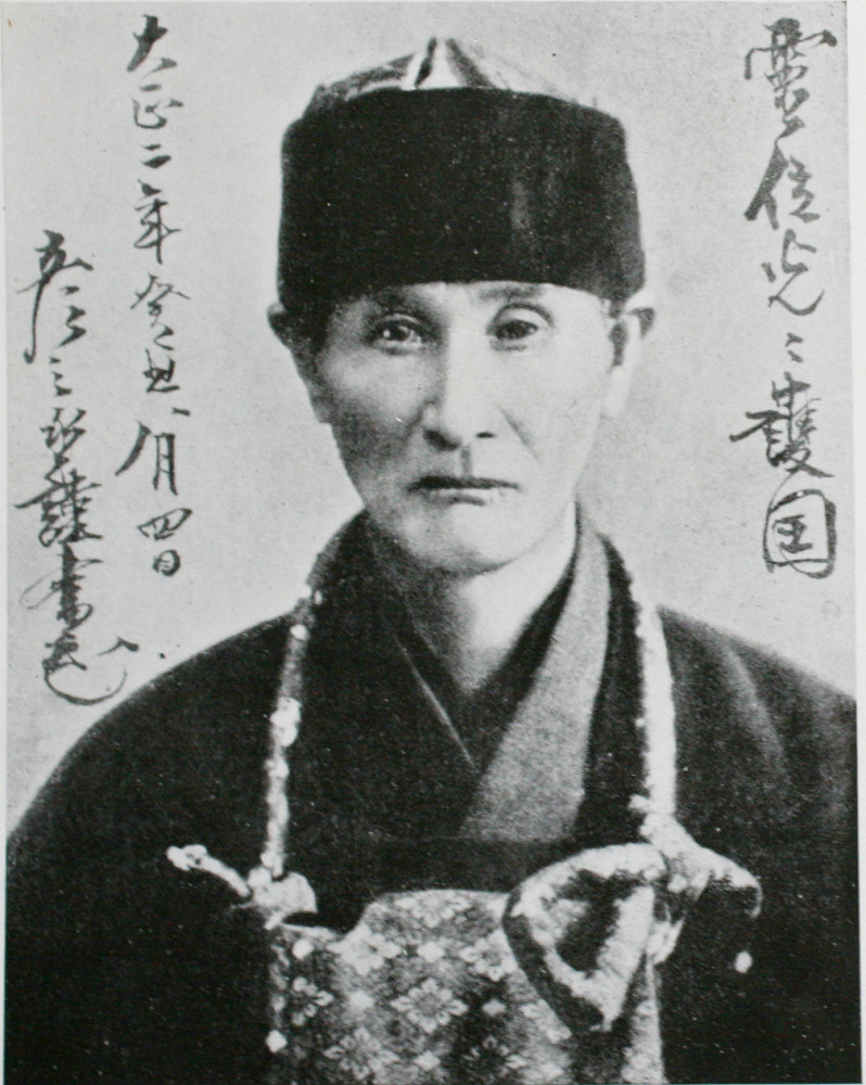 Portrait_Nakabayashi_Gochiku(1827-1913) calligrapher Photo ACE1911